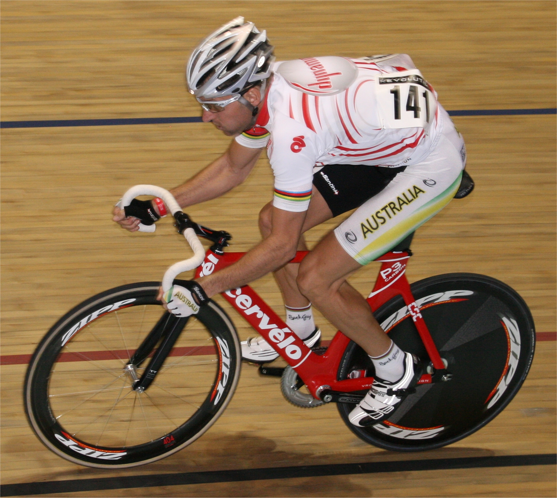 Luke Roberts at Revolution 25, in 2009.